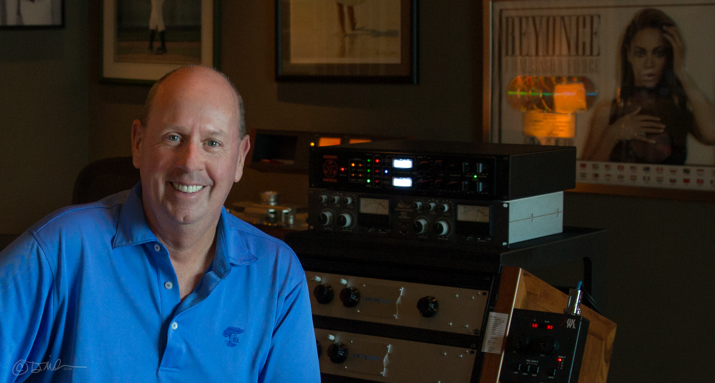 Tom Coyne at Sterling Sound